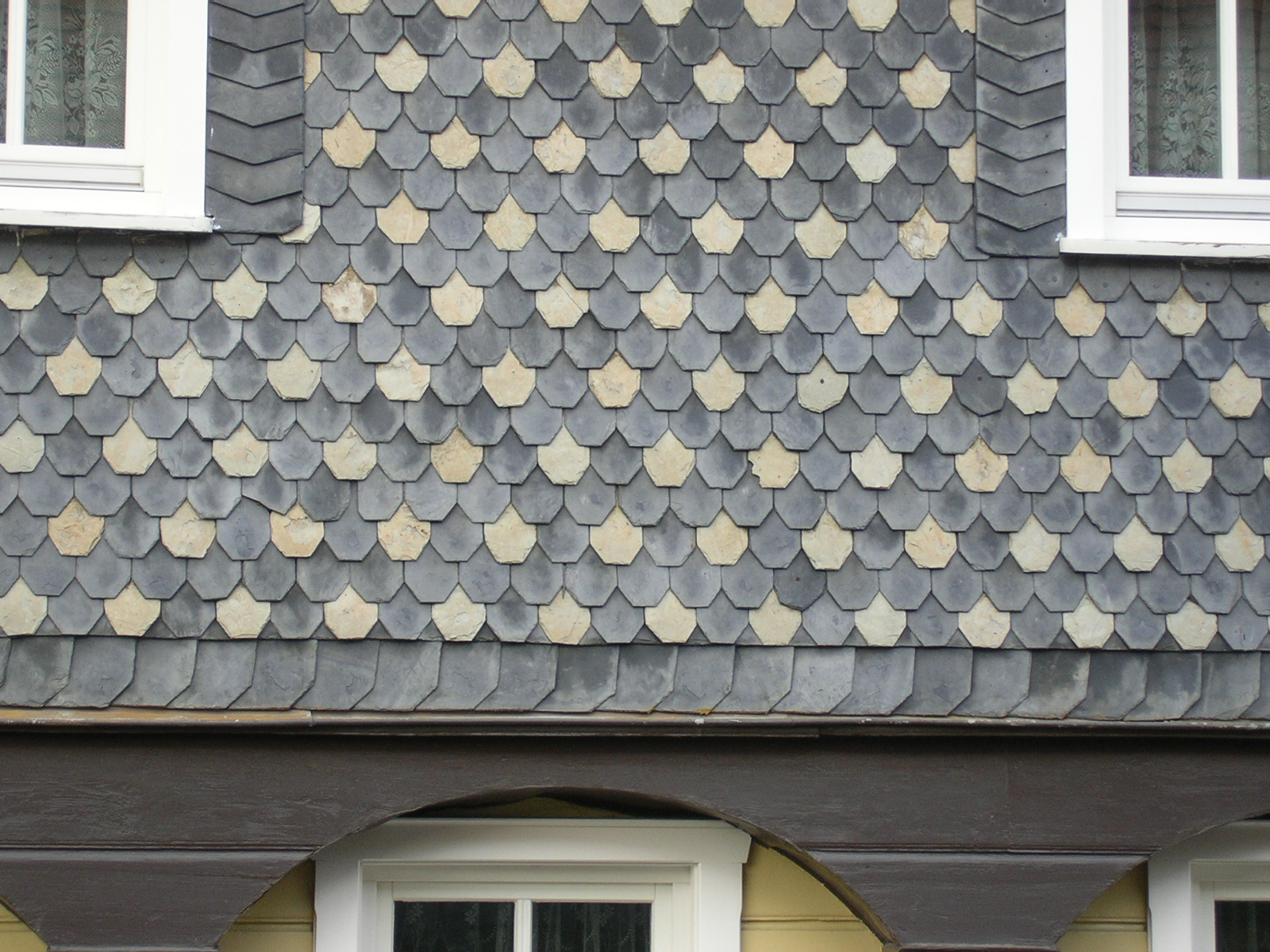 Black and white slate roof at Obercunnersdorf, Saxonia, Germany. 19./20th century